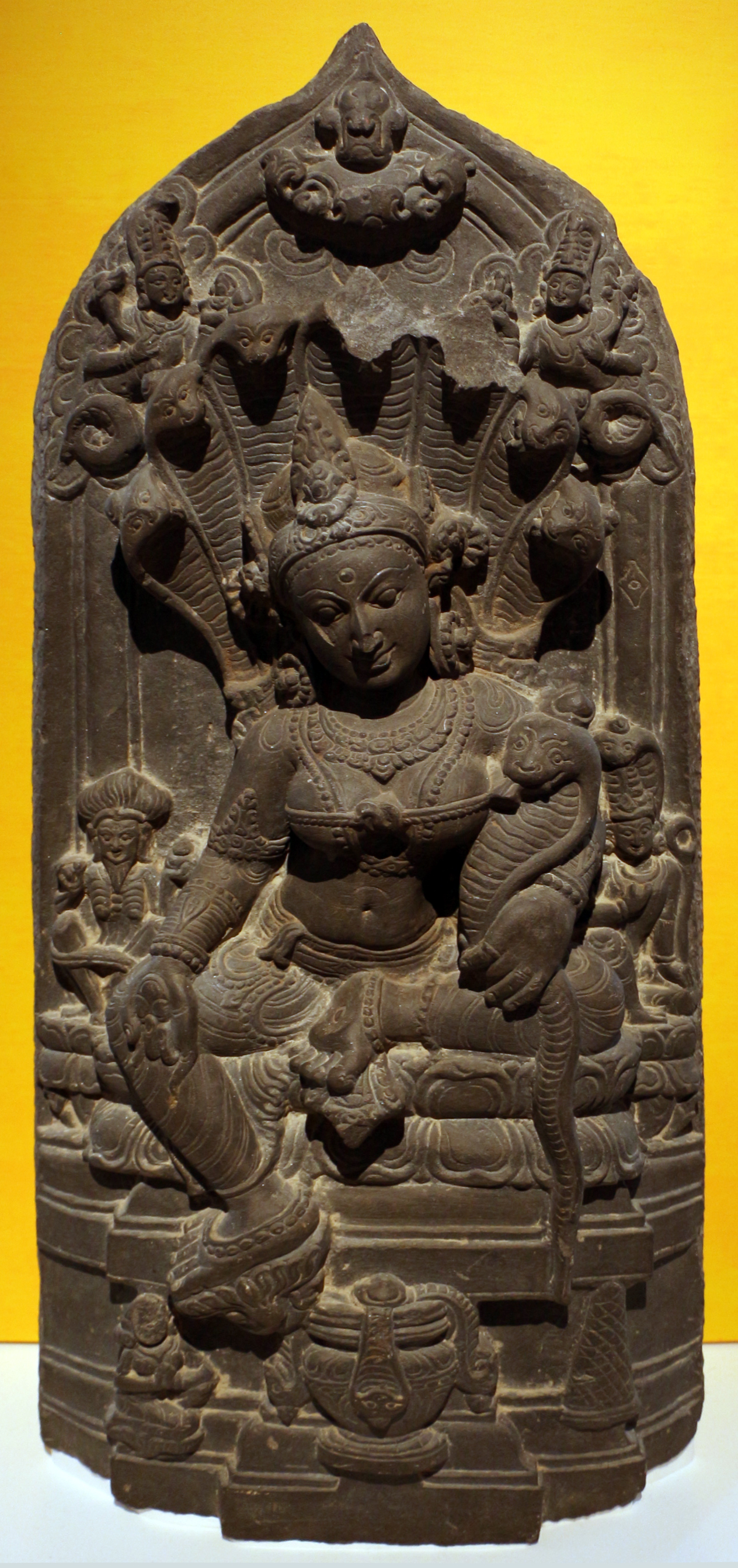 Art of India in the Art Institute of Chicago